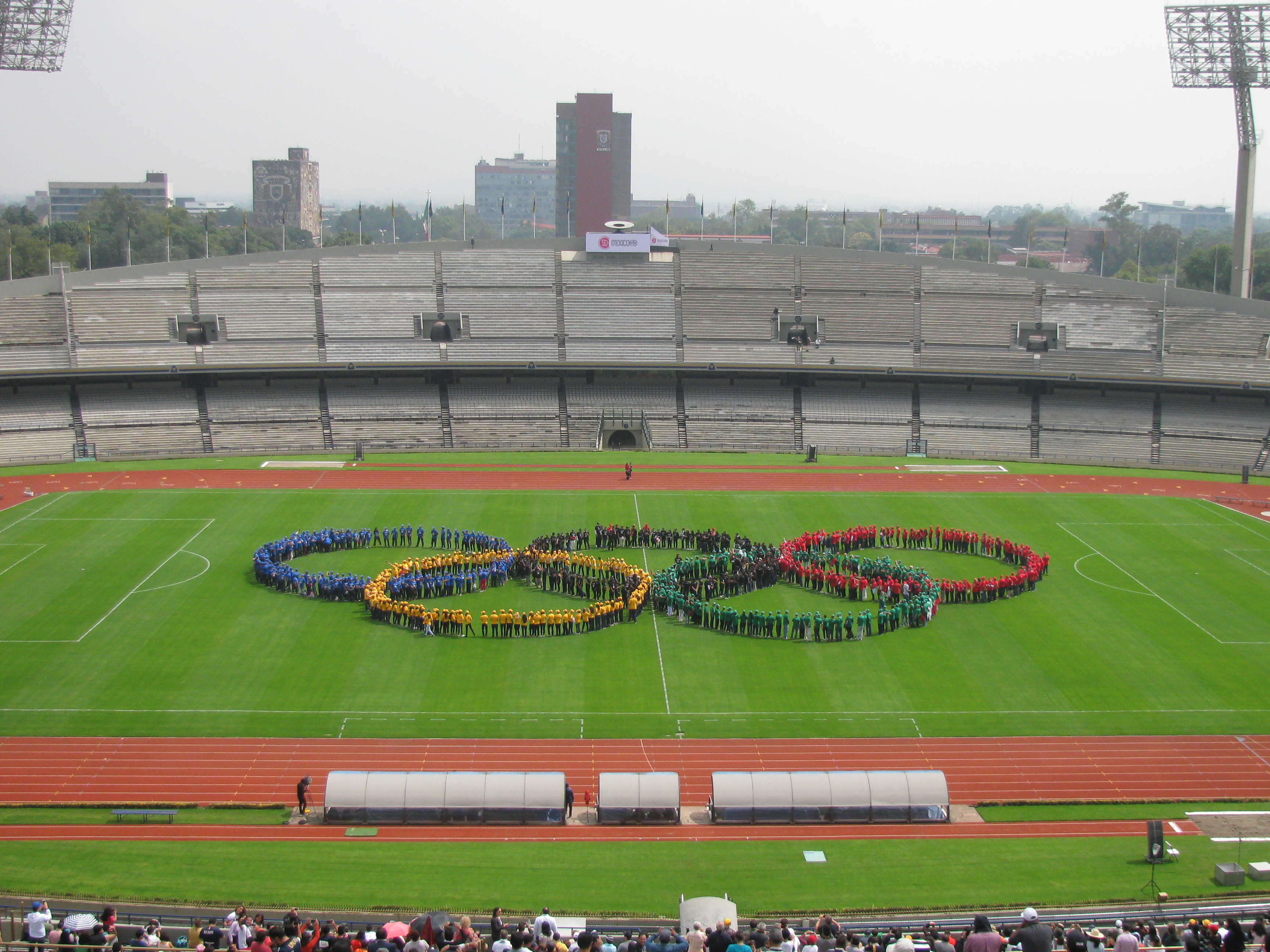 Event to commemorate the 50th anniversary of the 1968 Olympic Games in Mexico. University Olympic Stadium, Mexico City, Mexico.